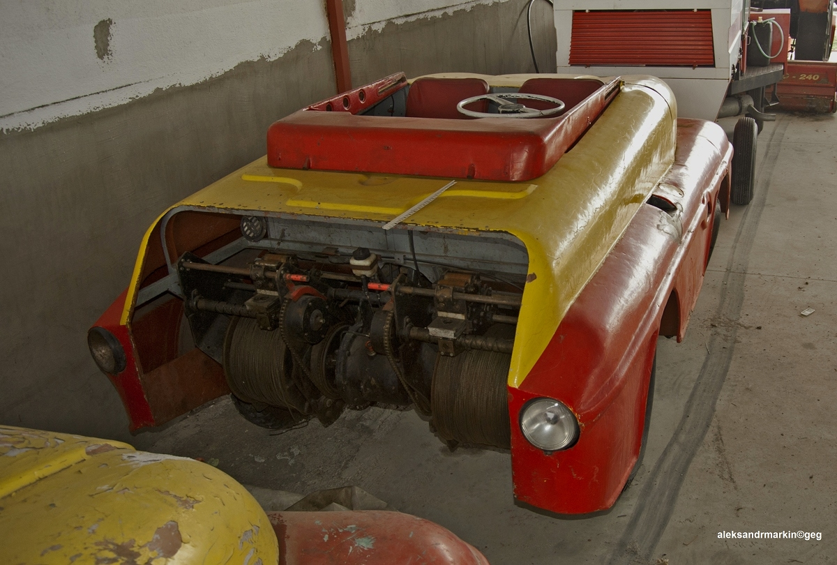 The Herkules-III, a winch for wire-launching gliders, commonly used in the GDR.